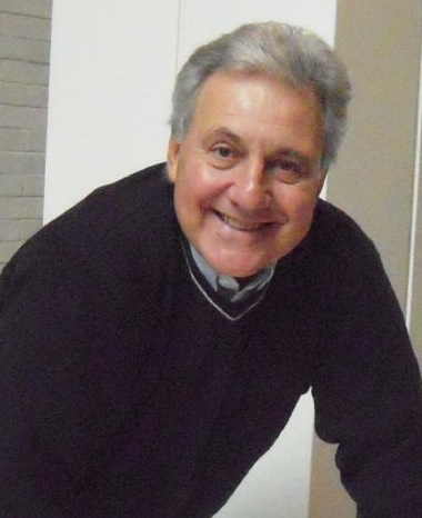 Former Boston Red Sox shortstop Rico Petrocelli.